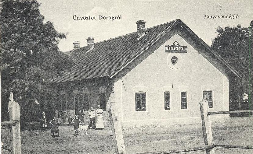 This building was very important into life of Dorogian sport. Here was the club foundation and the stadium building plan was born also.